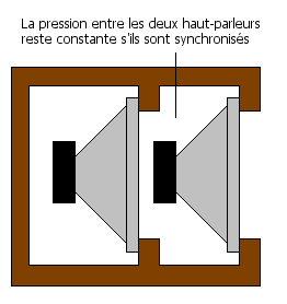 Isobarik loudspeaker.